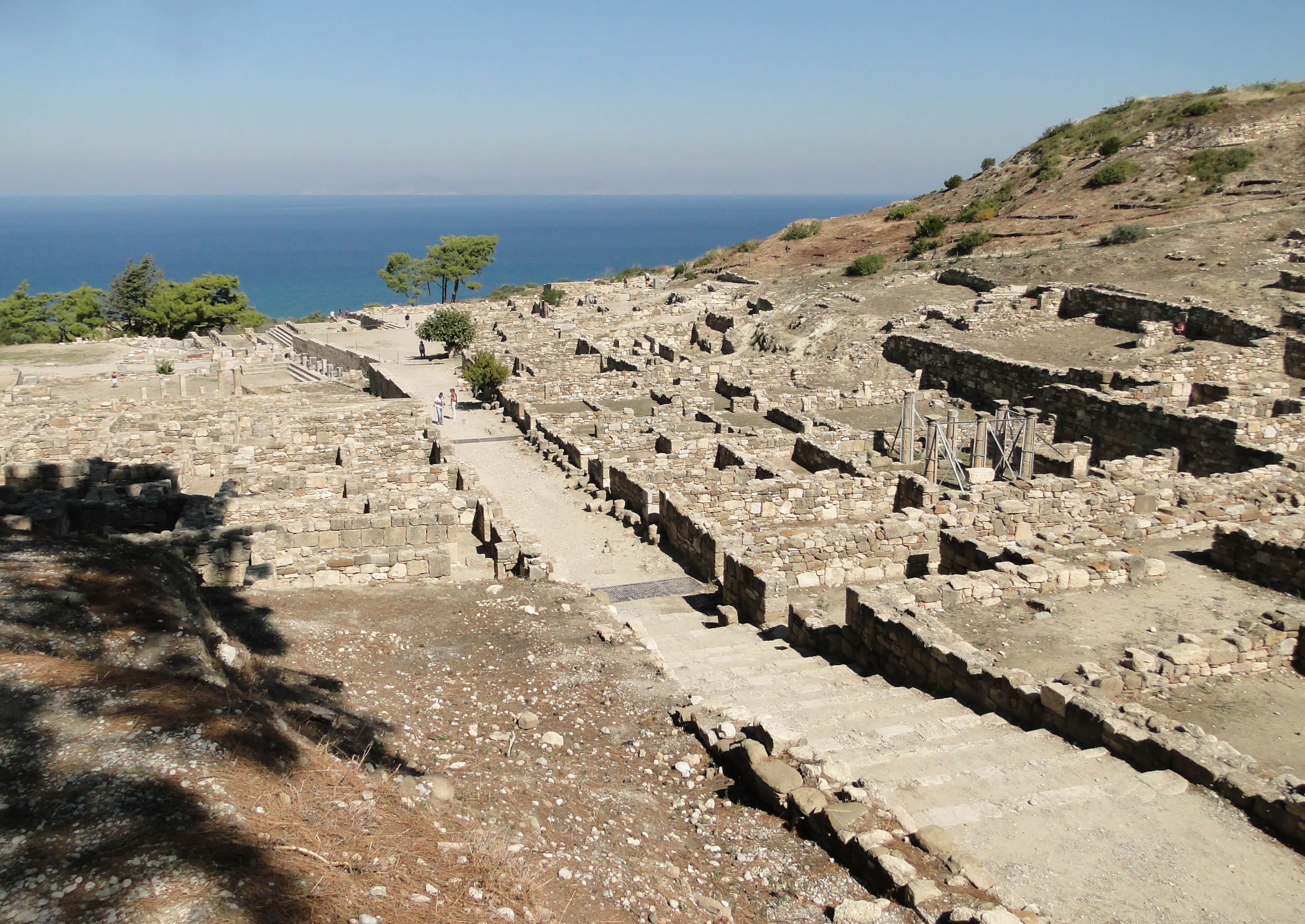 Main street of the ancien city of Kameiros, Rhodes, Greece